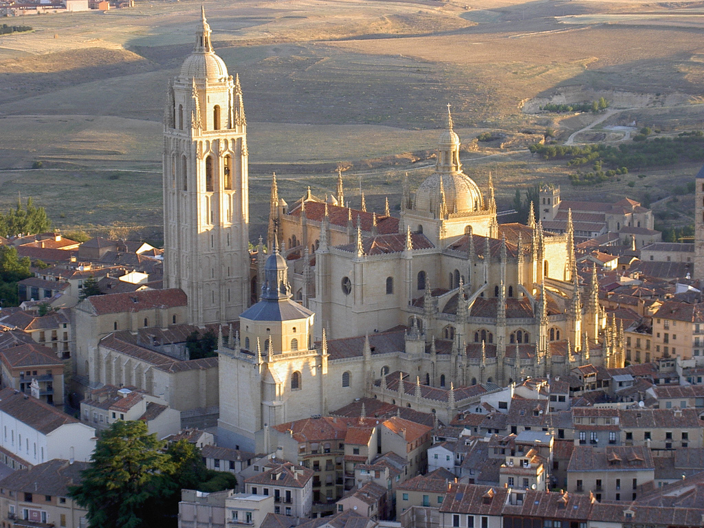 Cathedral of Segovia, as seen from the air